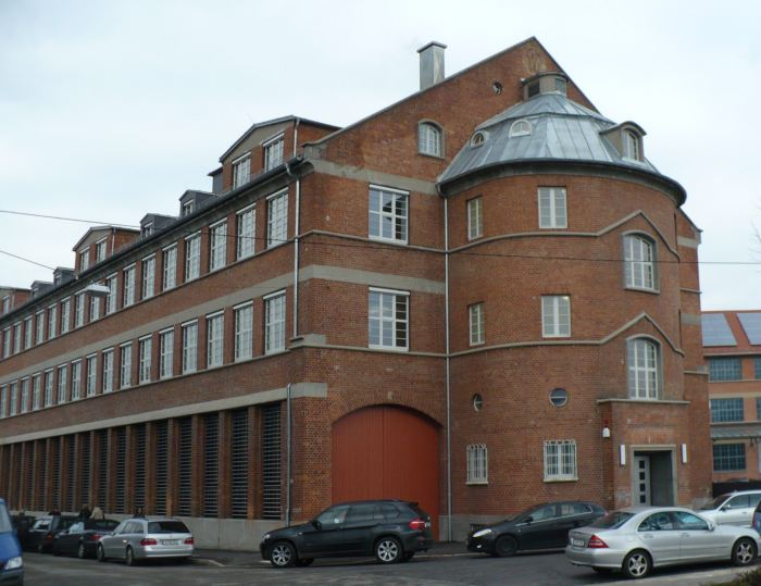 Stadtarchiv Stuttgart-Bad Cannstatt - Bellingweg 21